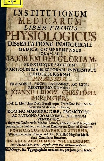 Titelblatt, Ludwig Christoph Beringer (1709-1746), Arzt und Professor der Medizin an der Uni Heidelberg